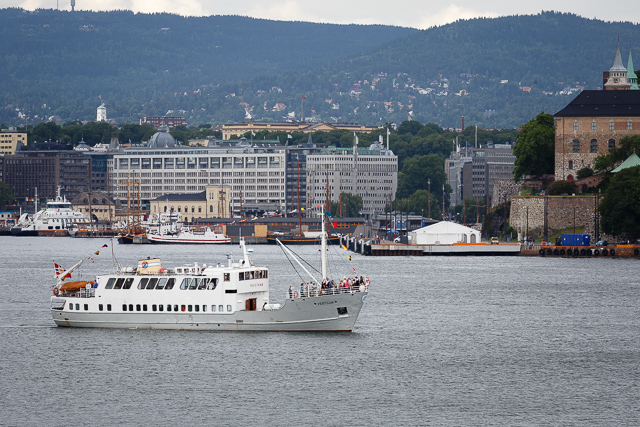 Vestgar at Kyststevnet 2014 in Oslo, Norway